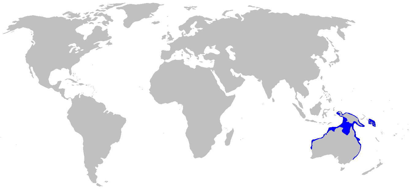 Distribution map for Hemiscyllium ocellatum